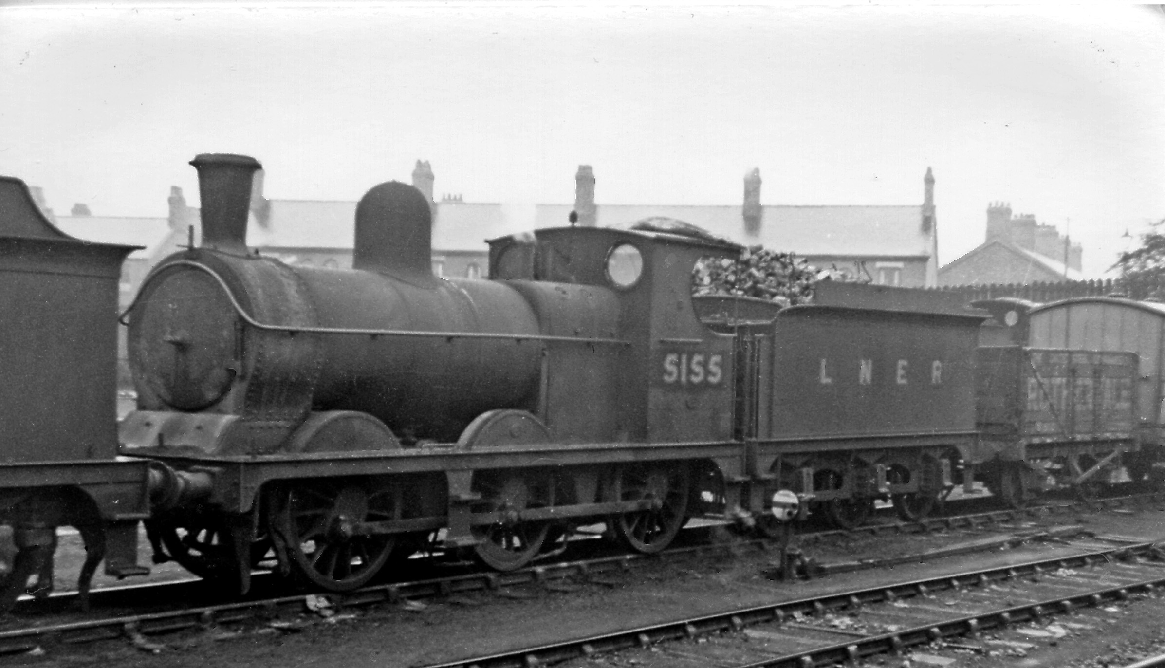 A Great Central 0-6-0 at Northwich Locomotive Depot. No. 5155, an ex-GC Pollitt J10 0-6-0, general 'dog's-body' on the Cheshire Lines (CLC), rests on a Sunday.